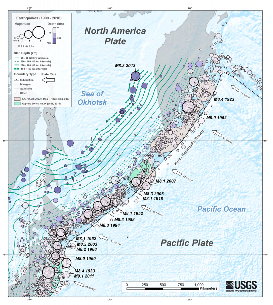 Earthquakes M5.5+ (1900-2016) kuril Circle sizes indicate Magnitude, and colors indicate their depth.